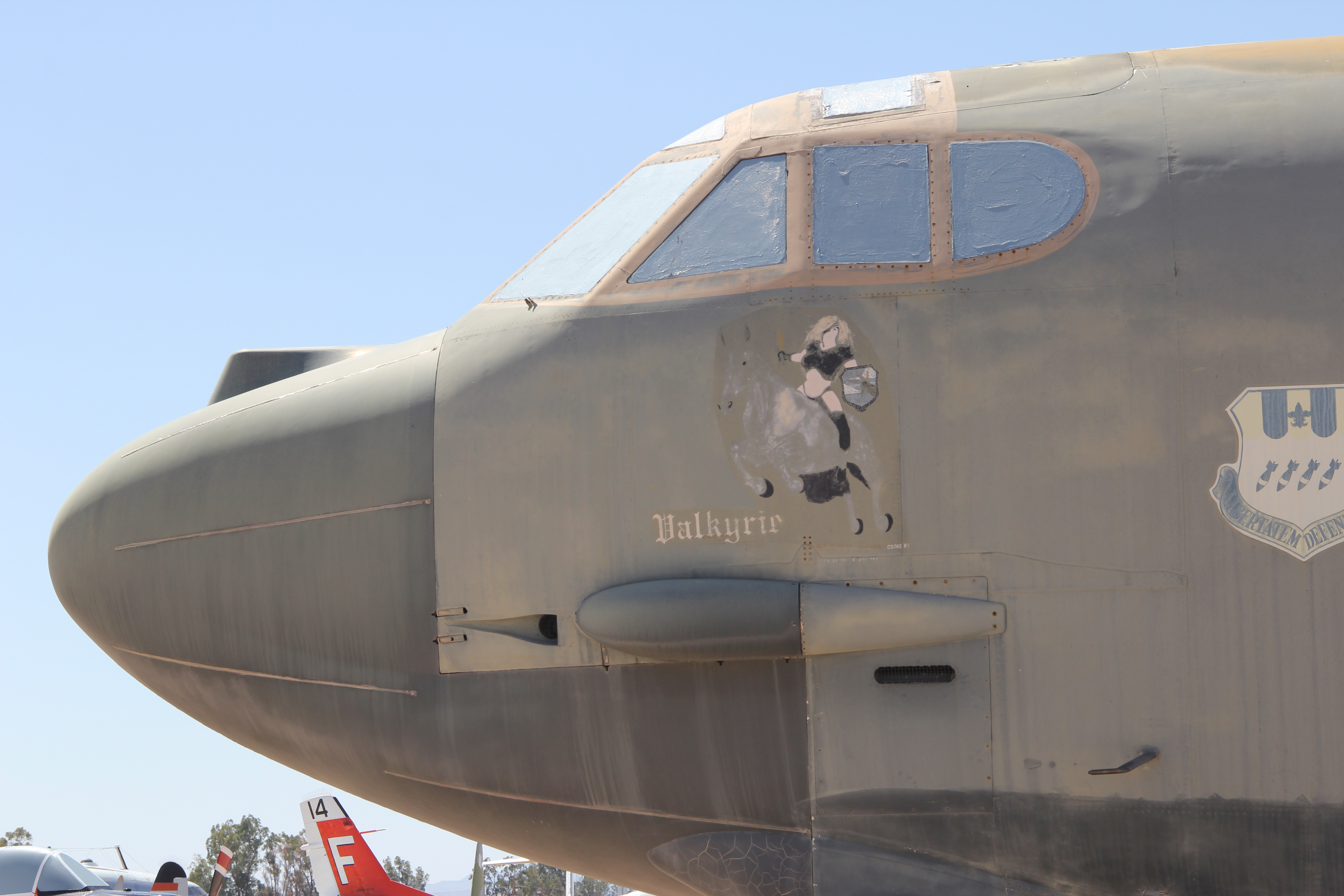 Boeing B-52G Stratofortress "Valkyrie" 58-0183 Serial Number: 58-0183 Markings: 2nd Bomb Wing, 596th Bomb Squadron, Barksdale AFB, Louisiana